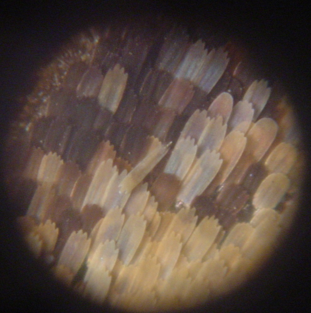 Description: Butterfly wing, edge of a pattern, scales Author, date of creation: selfmade by Shaddack, 22 October 2005 Source: self-made Copyright: GFDL Comments: Microphotography from a homemade rig